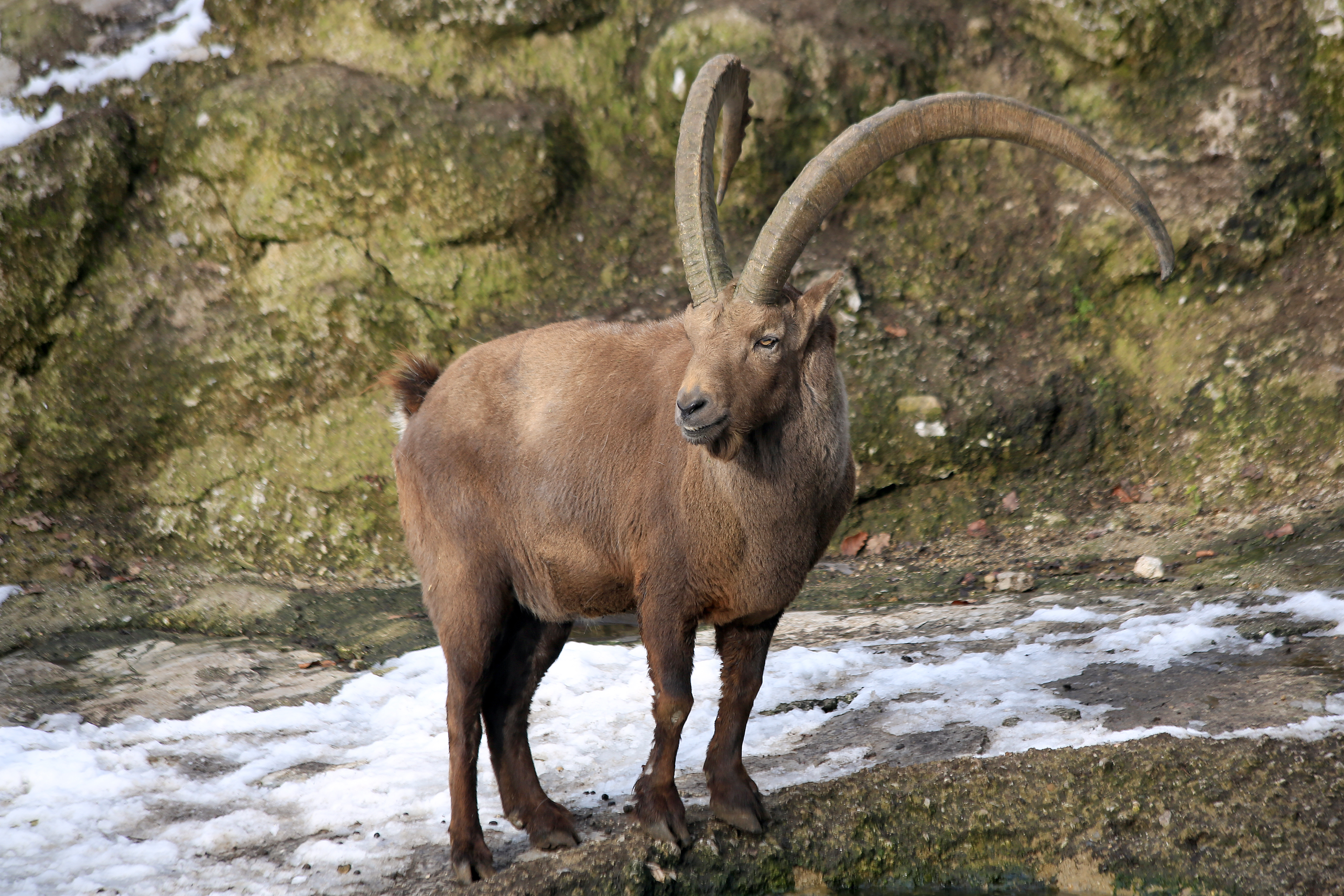 Alpine ibex (Capra ibex) in Salzburg Zoo (Salzburg, Austria).